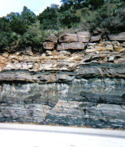 Cambrian greensand exposed in a roadcut (lat. 30.645725, long. -98.415778), near the Llano Uplift; this is a photo I took on a geology field trip in November 1997. Notice the fault running through the exposure.